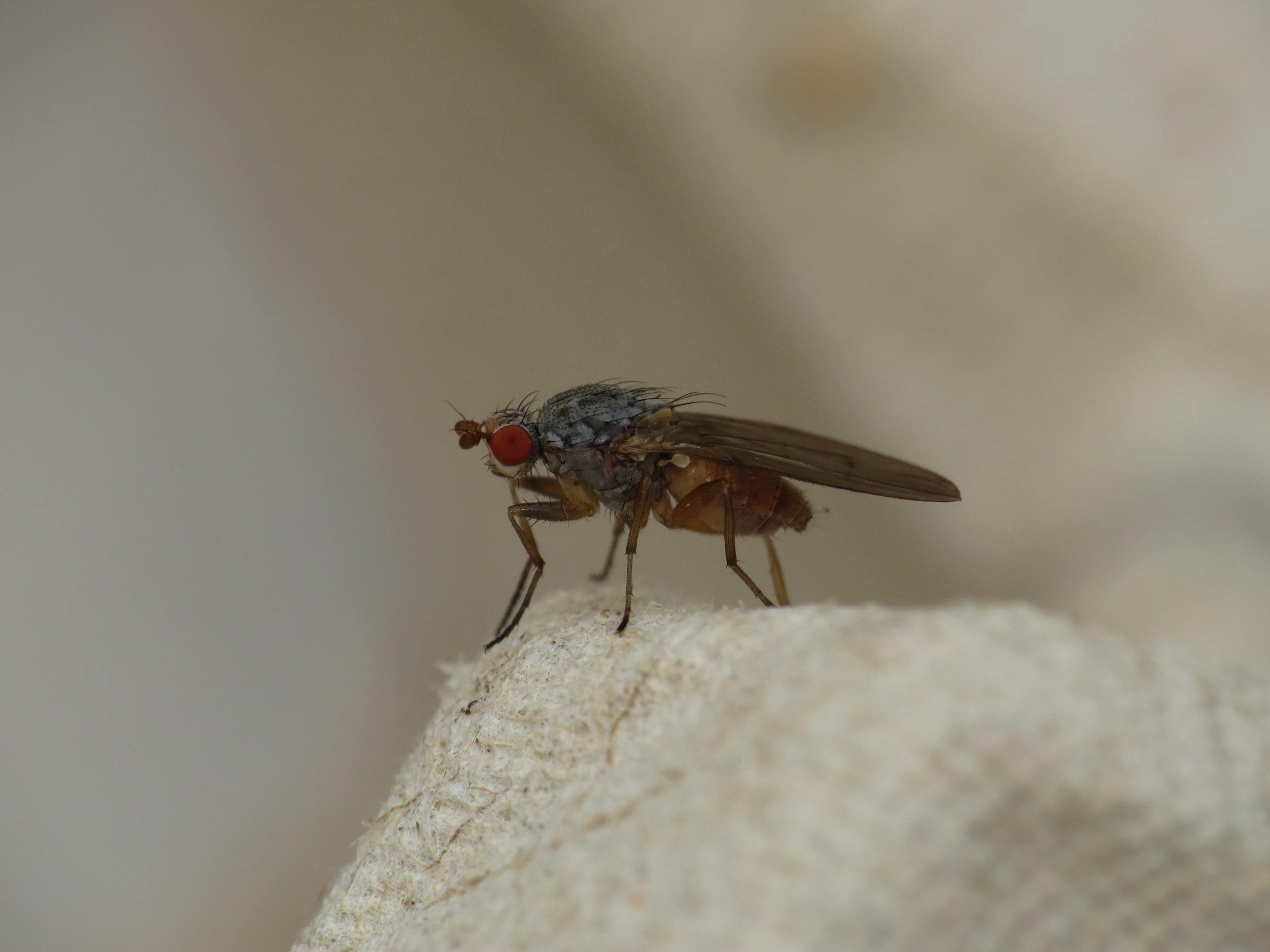 Tephrochlamys sp., to Robinson trap, Søborg, Denmark, 27/28 September 2014